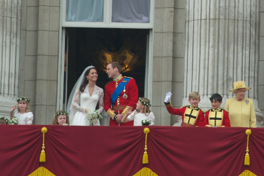 The newly married Prince William of Wales and Kate Middleton on the balcony of Buckingham Palace. The girls (left to right): Lady Louise Windsor, Grace van Cutsem, and Margarita Armstrong-Jones